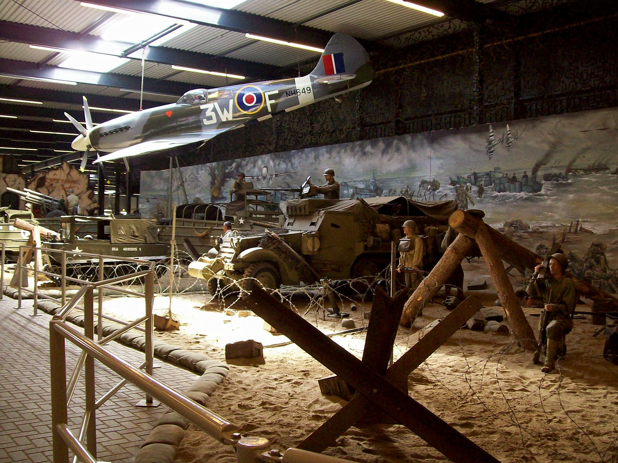 Diorama of D-Day 1944 at Liberty Park War Museum, Overloon/NL